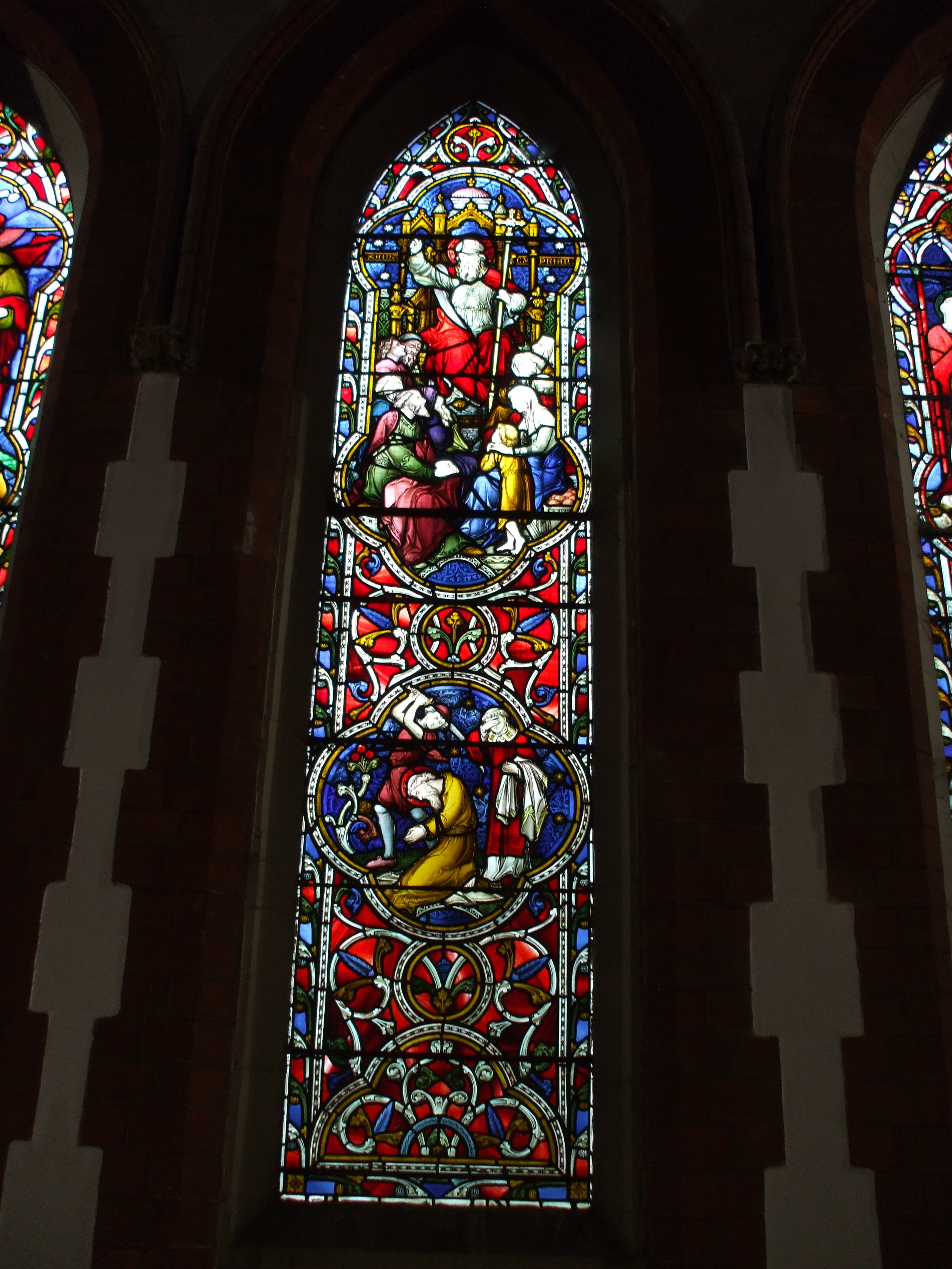 Centre of stained glass St Cypiran preAching and his martydom